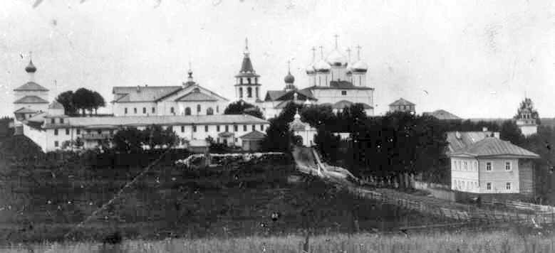 Kornilievo-Komelsky Monastery